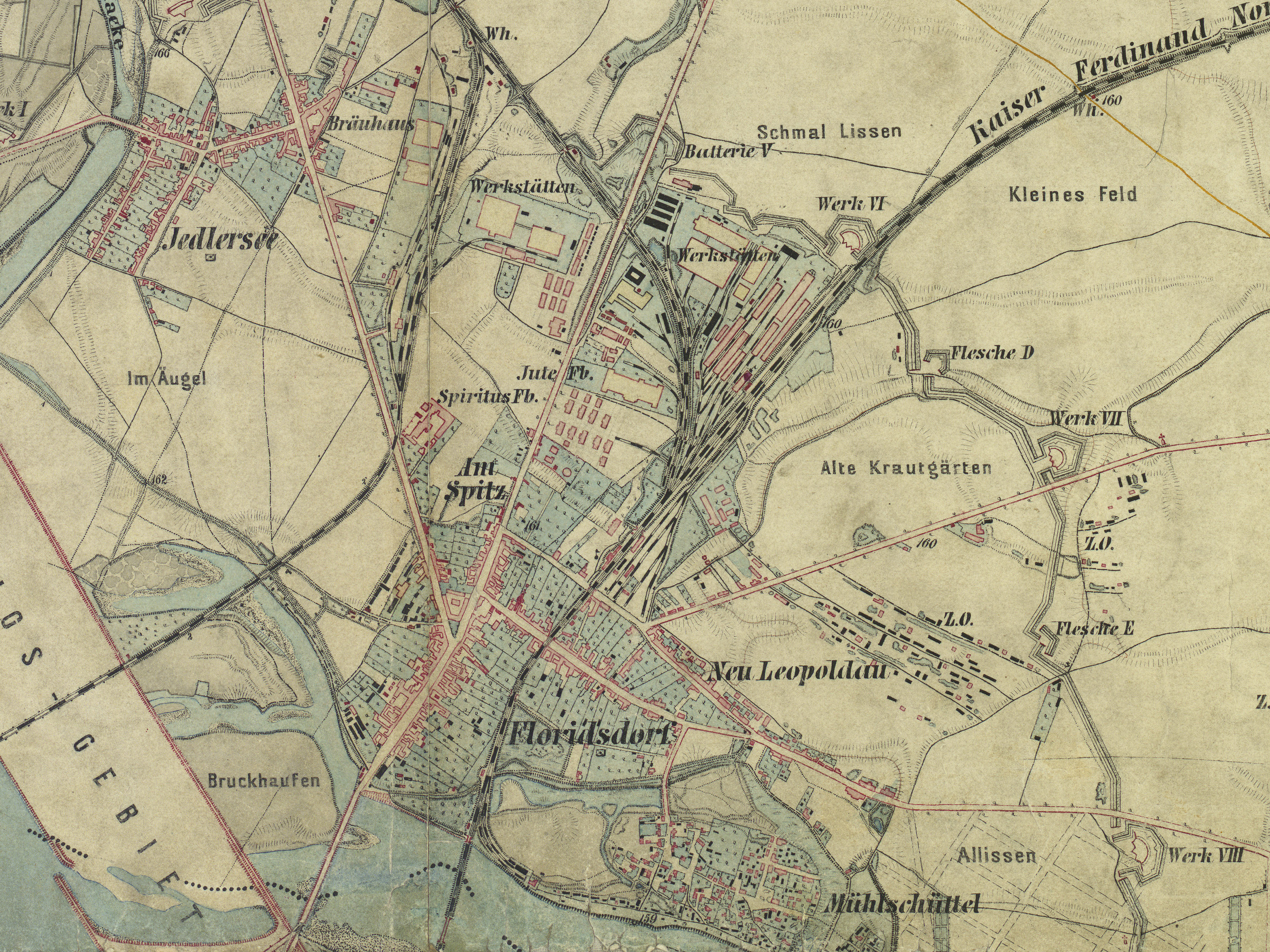 Map of Floridsdorf near Vienna, 1872